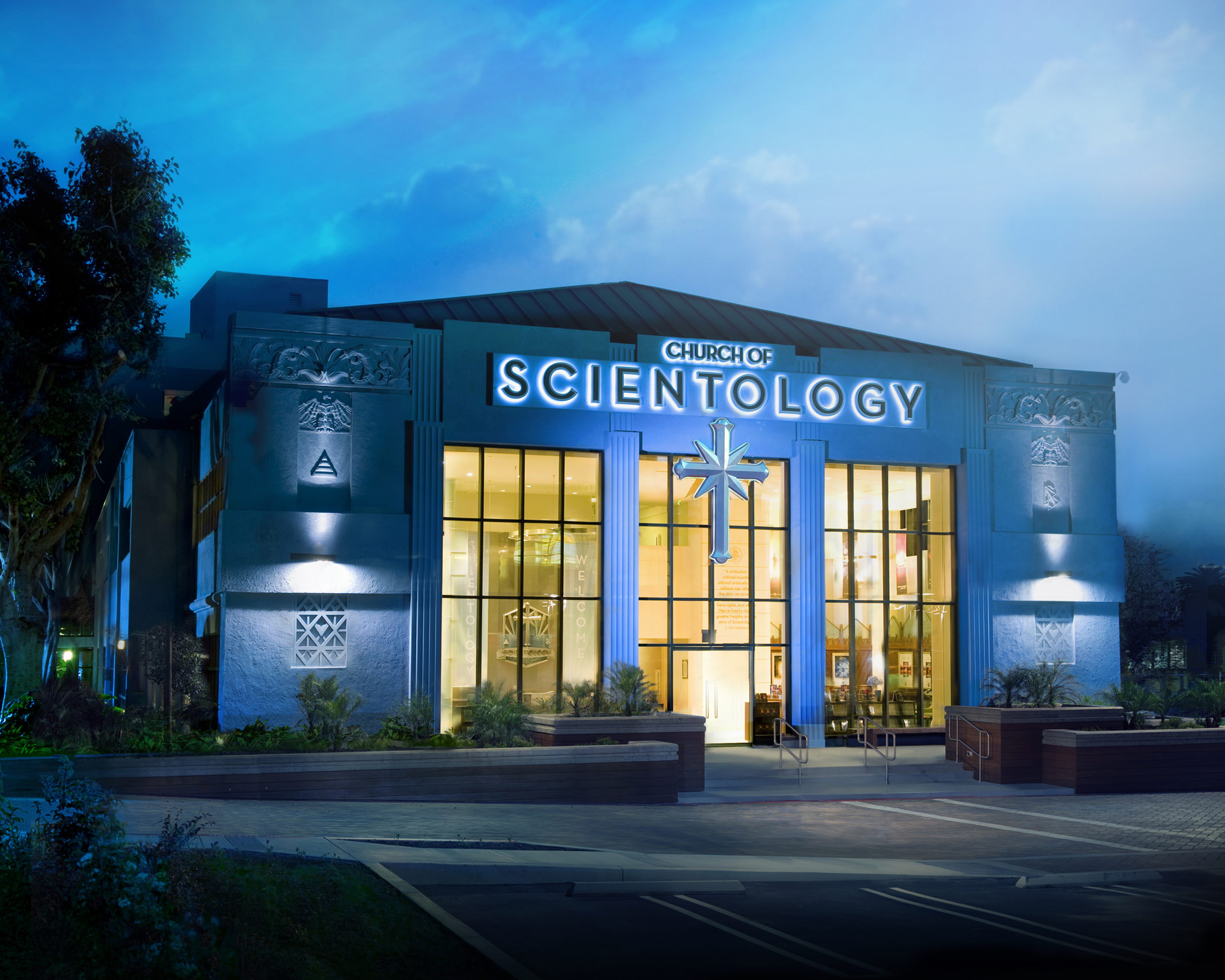 Church of Scientology of Los Angeles rededicated: The fully renovated Church of Scientology of Los Angeles, established in 1954 and the largest in North America, was rededicated April 24, 2010, in ceremonies attended by 6,000 Scientologists and their guests. Officiating was Mr. David Miscavige, Chairman of the Board of Religious Technology Center and ecclesiastical leader of the Scientology religion, with city, county and state dignitaries participating.